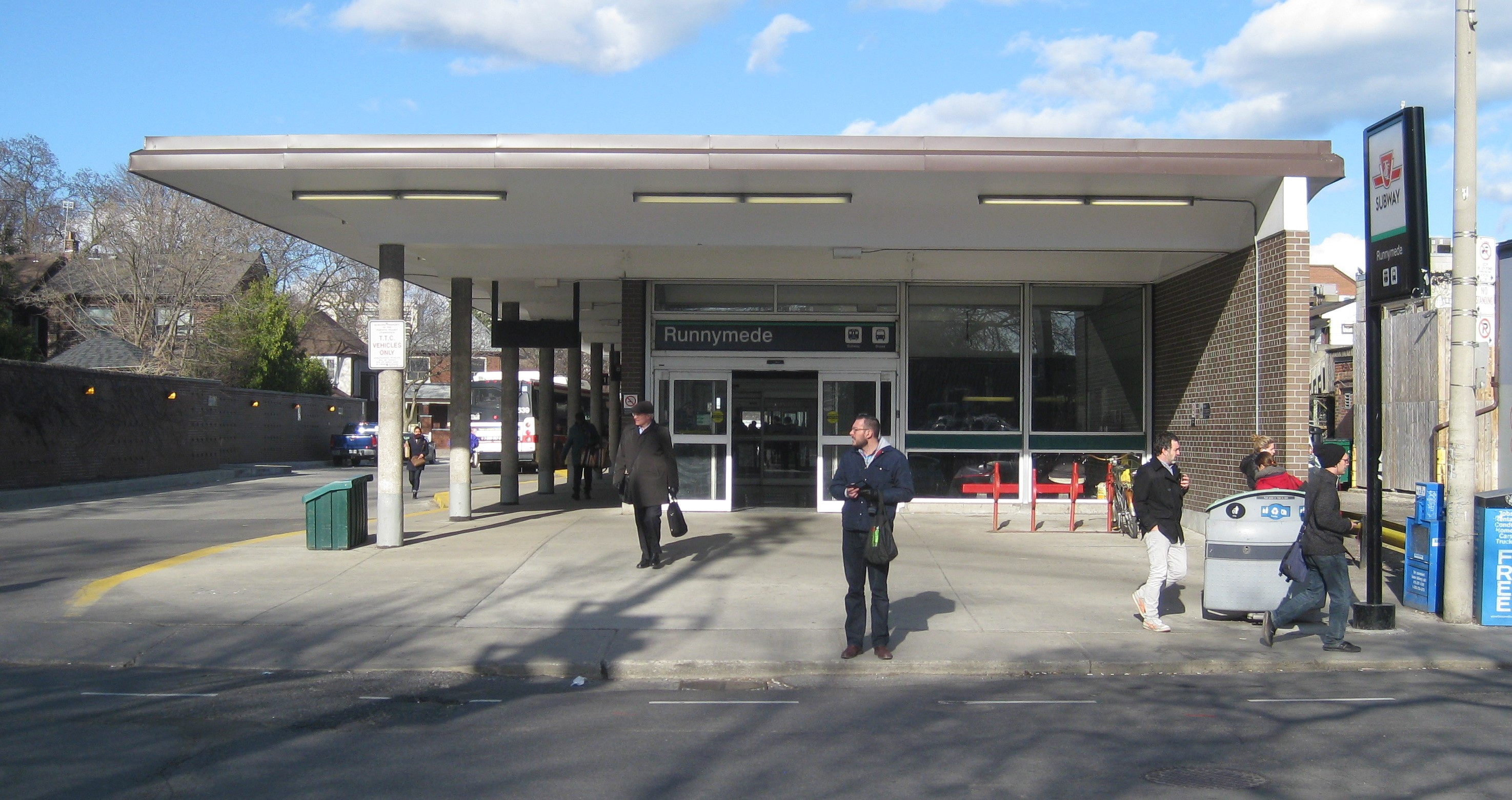 The west side of the Runnymede subway station in Toronto, Canada.